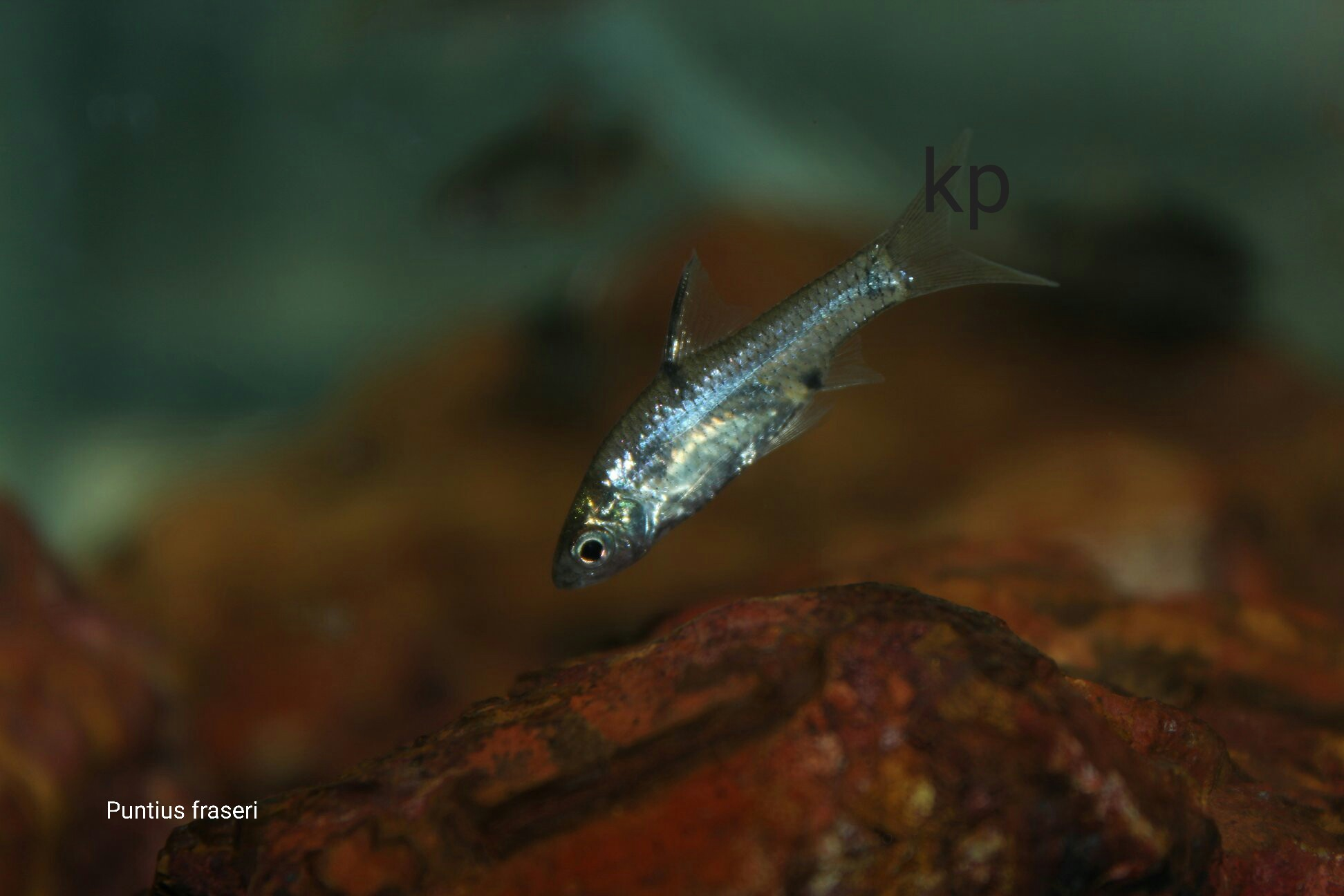 year 2016. Indian endangered fish species